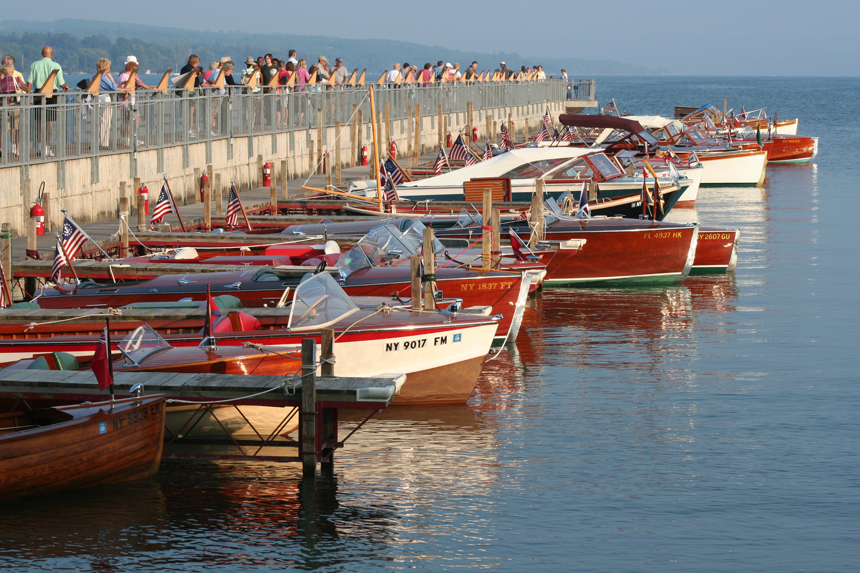 Wooden boats on Skaneateles Lake, Skaneateles, New York, during the annual Antique and Classic Boat Show.